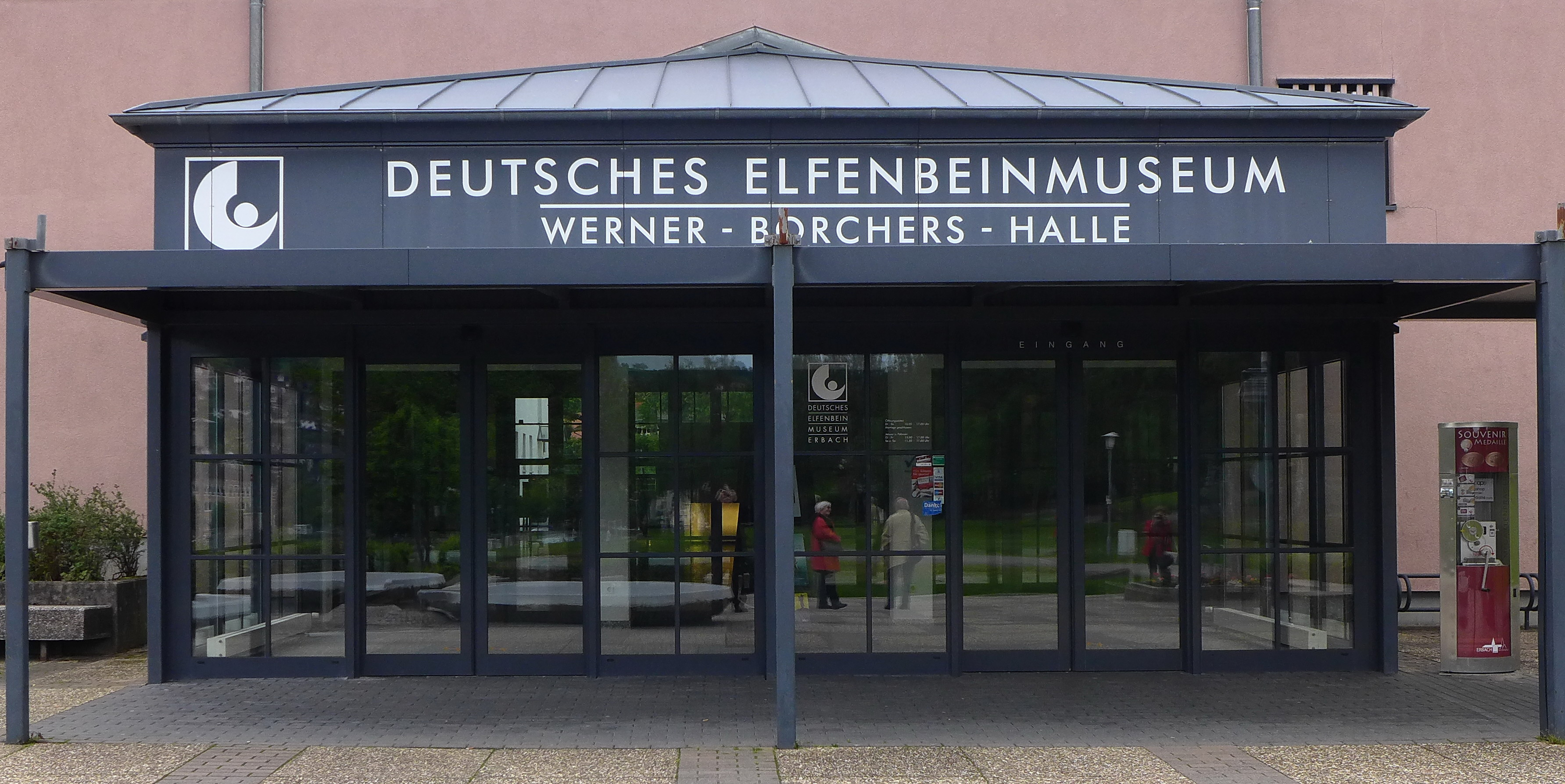 Ivory museum in Erbach, Germany